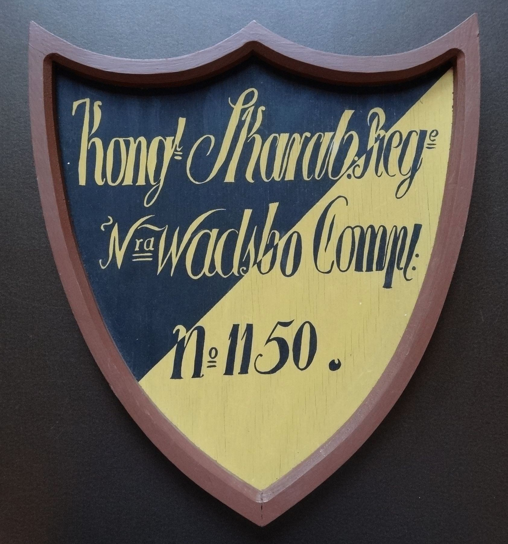 Nameshield that hung on the houses assigned to soldiers in the Swedish allotment system, displaying regiment, company and soldiernumber.